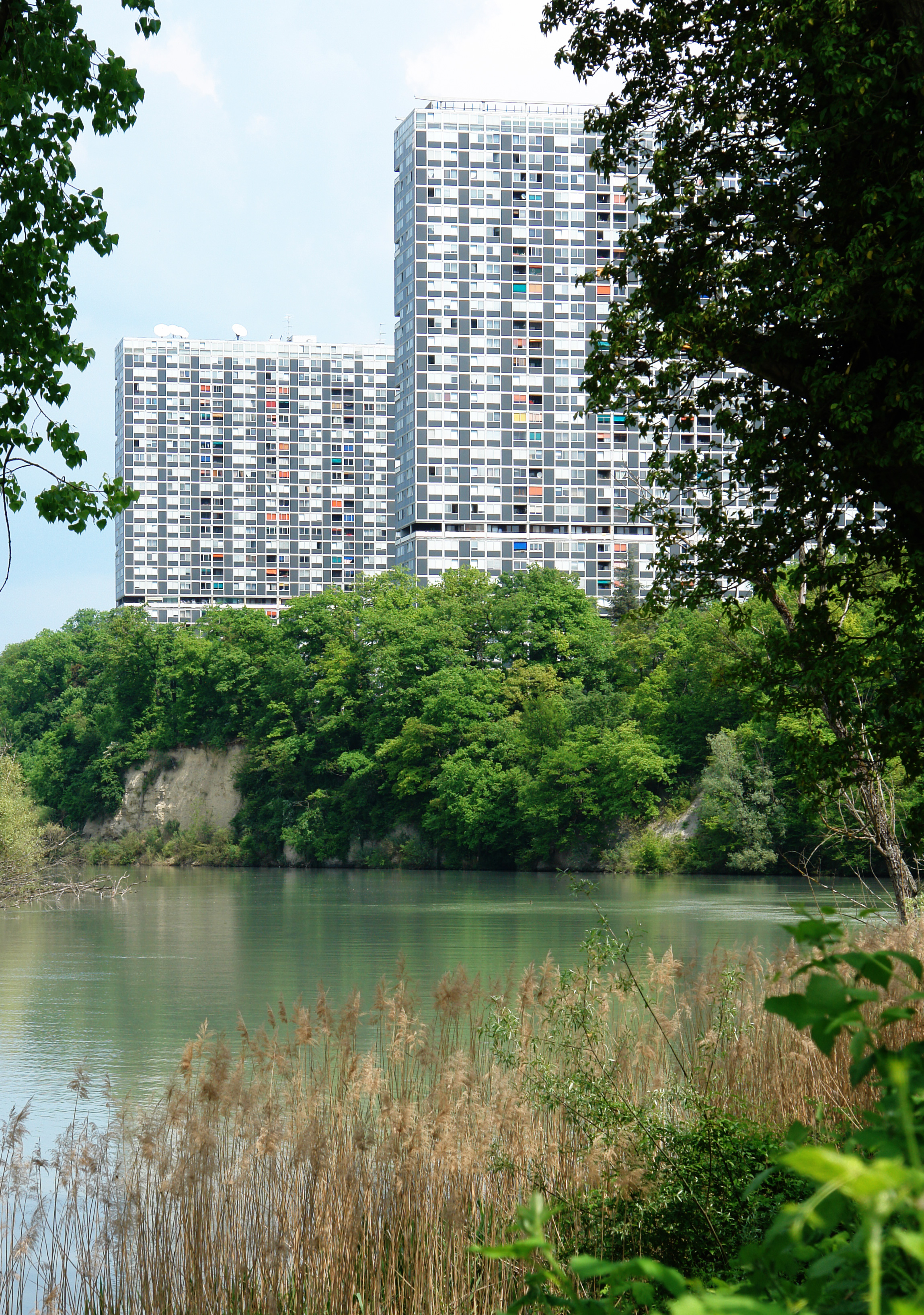 Cité du Lignon, large residential estate, Aire, 1962-71 in Geneva Switzerland, Architect: Georges Addor, The Towers over Rhone River